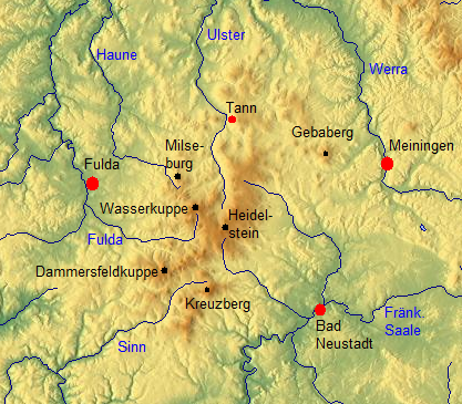 Overview-map of the Rhoen-Mountains in Germany